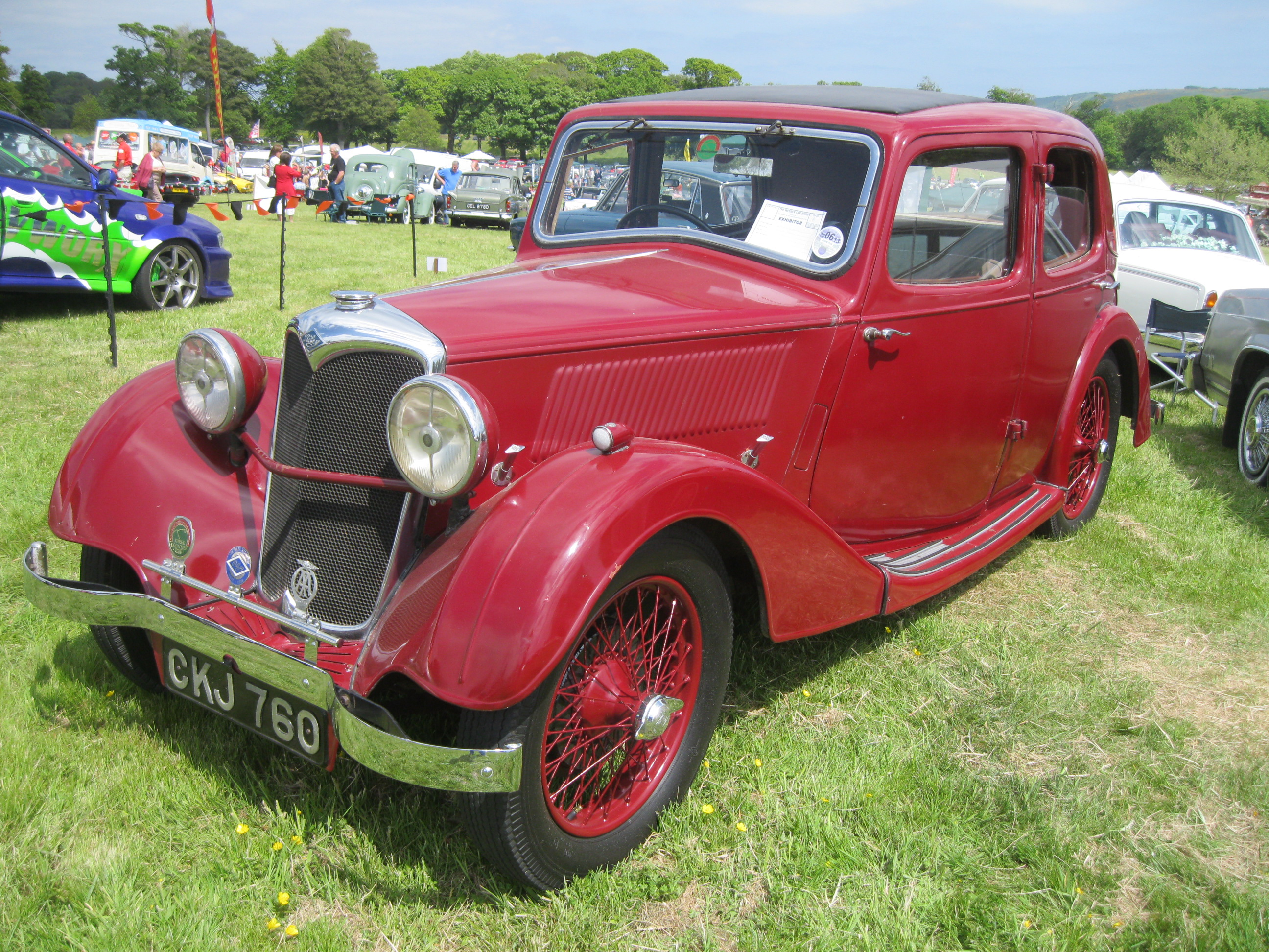 Great example of a distinctive mid-1930s Riley saloon, spotted at the Lulworth Castle Classic Car Show on 9th June 2013